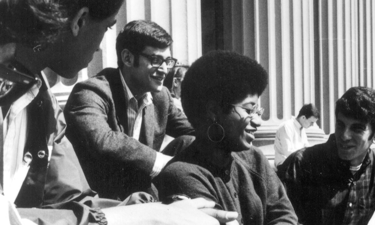 Shirley Ann Jackson as the unique woman and black person at the university